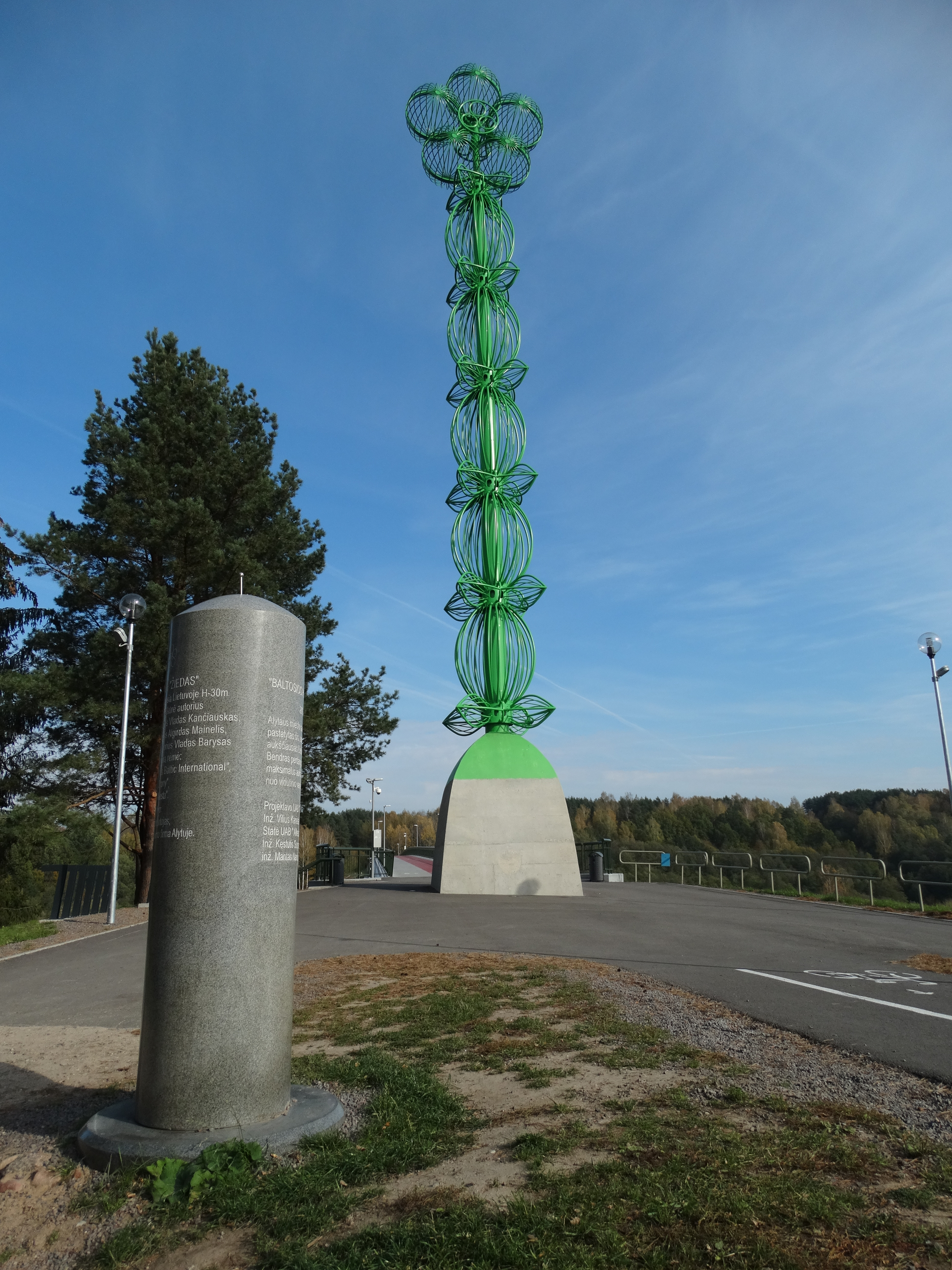 Footbridge, Alytus, Lithuania